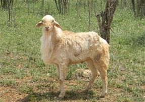 Sheep Research station